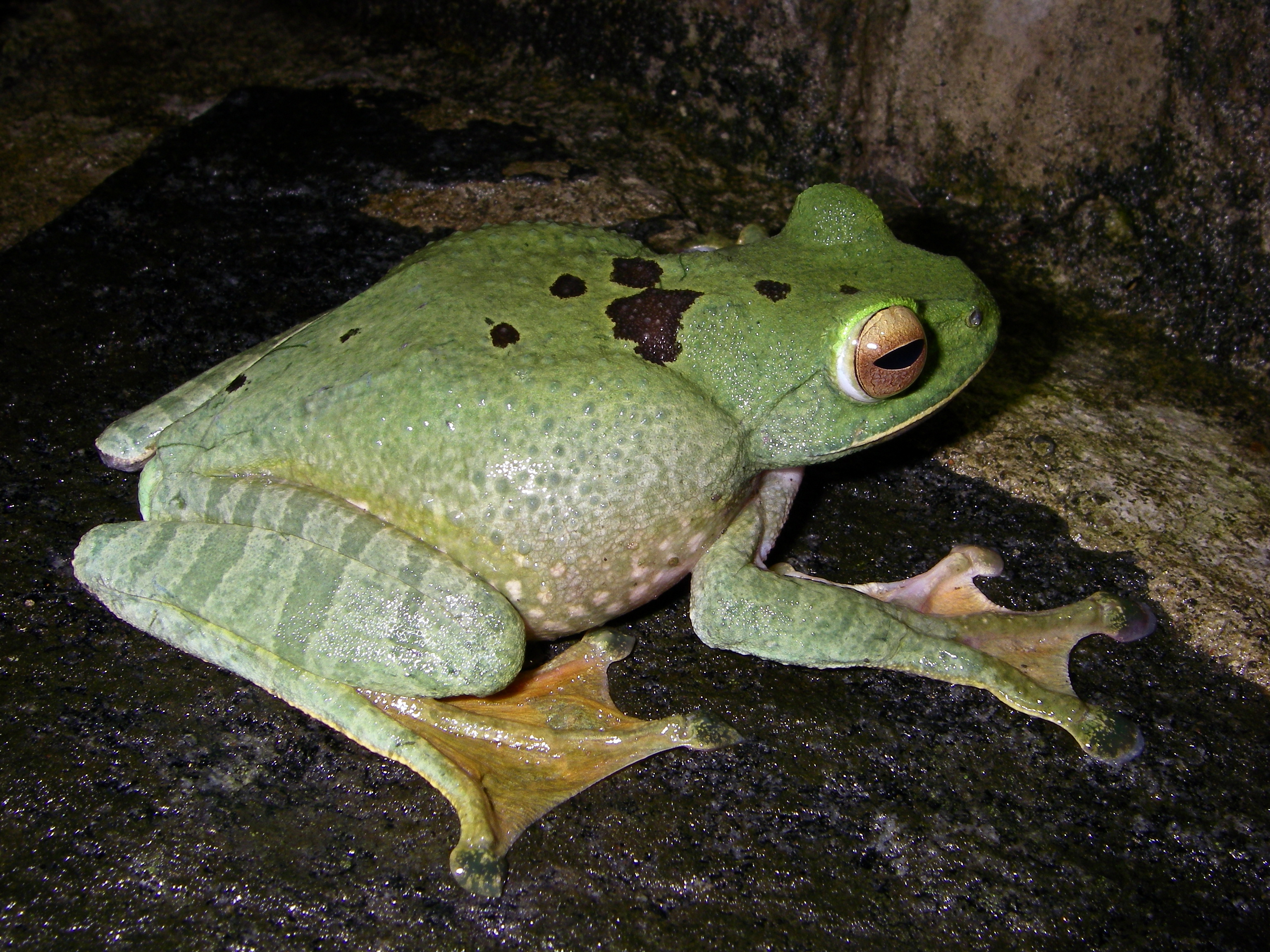 Boophis albilabris (Mantellidae); Ranomafana National Park